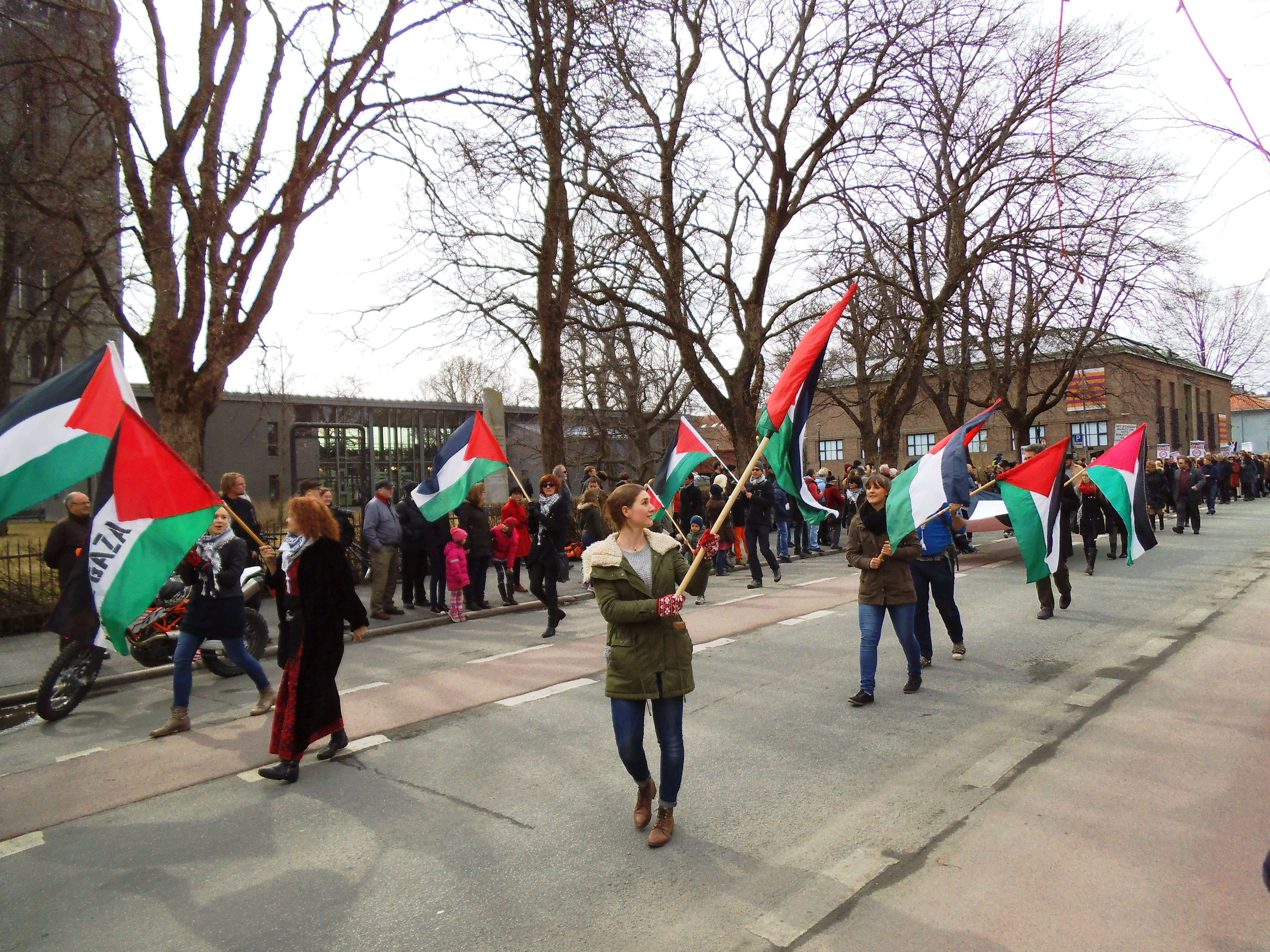 Protesters in Trondheim who sympathize with Palestine on International workers day 2013. The parole was boycott Israel and Histadrut.